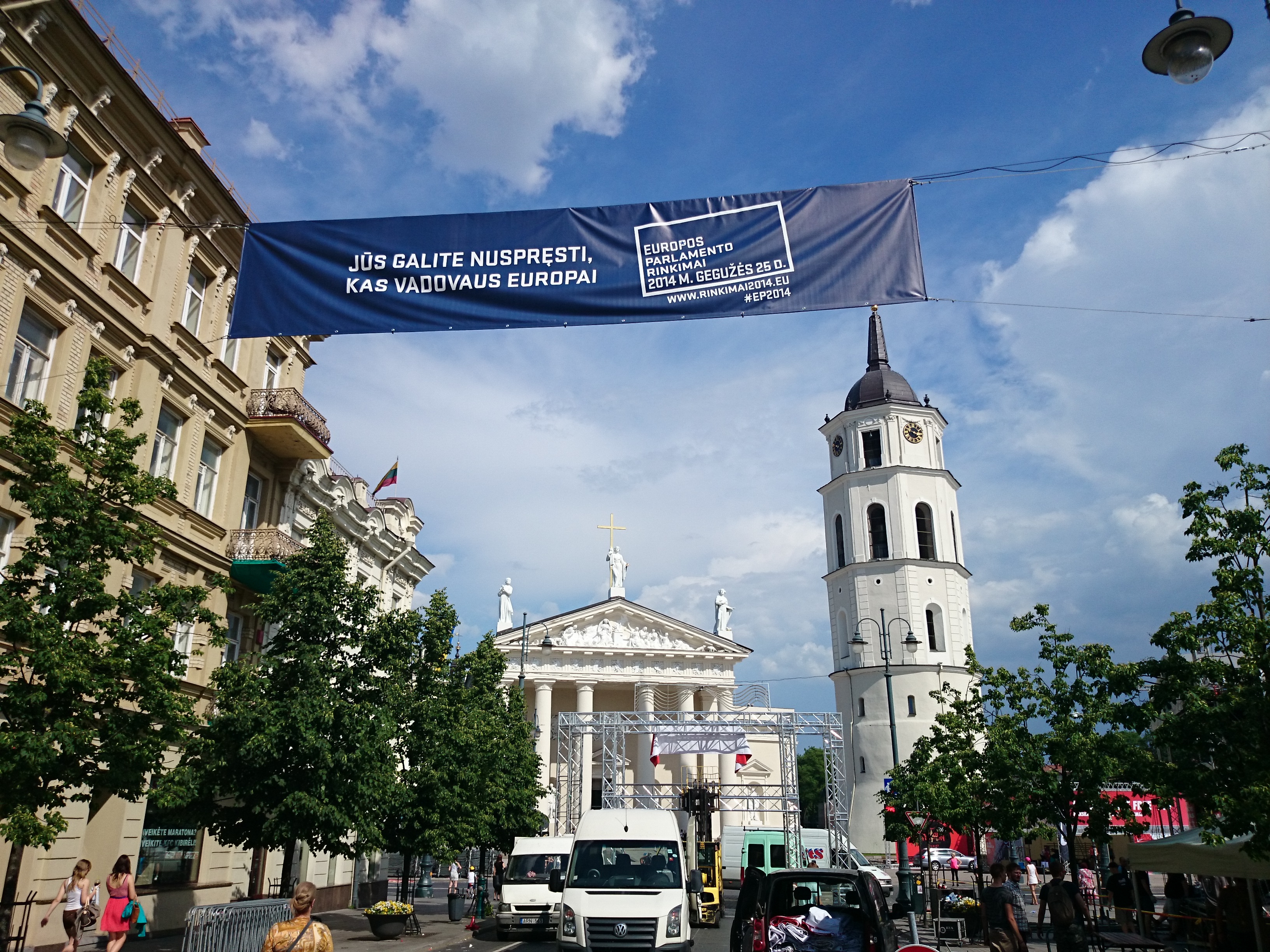 EP rinkimai 2014